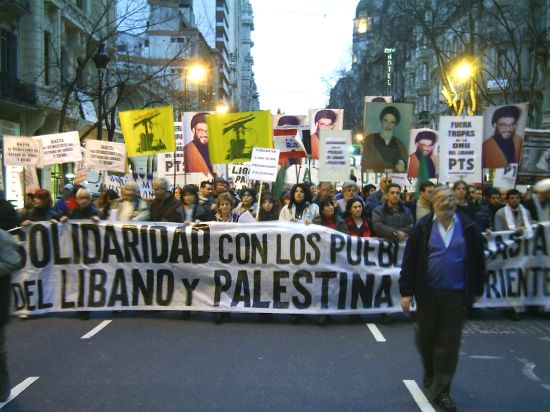 A Quebracho demonstration agaist Israel.